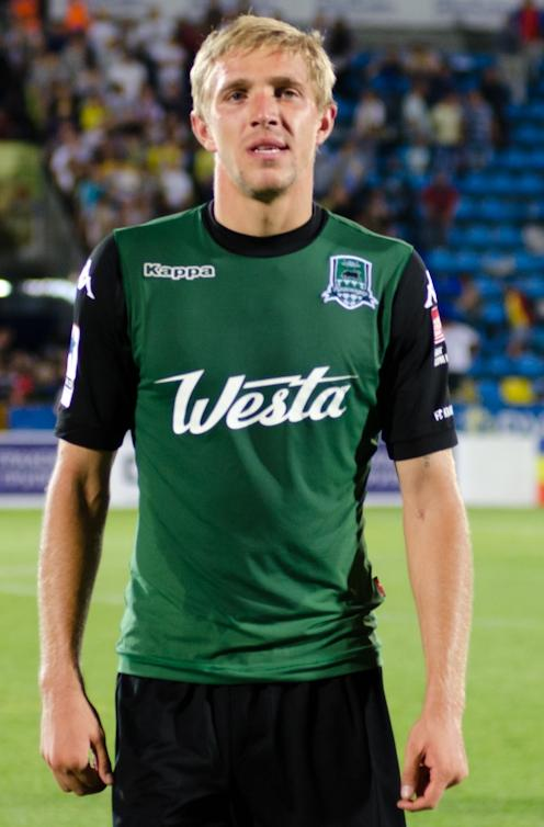 Yuri Gazinskiy with FC Krasnodar.